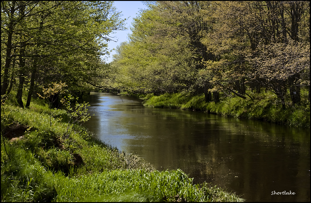 Annapolis River, Nova Scotia, Canada